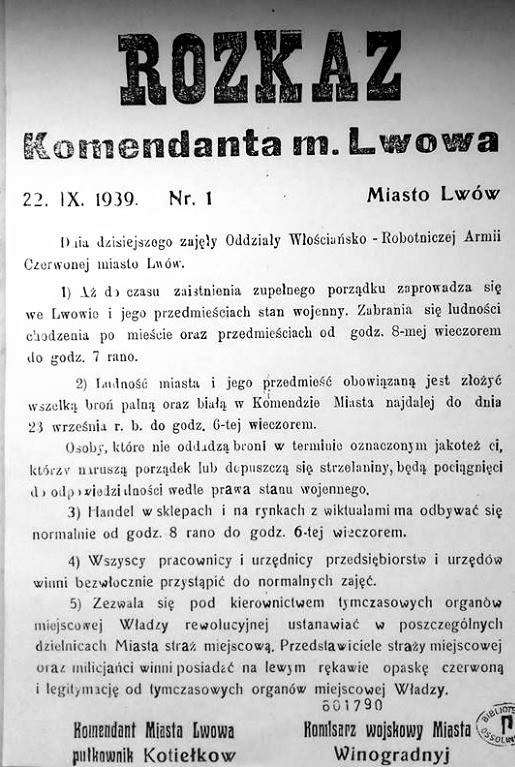 First official annoucement of Soviet authorieties after entering Lwów by Red Army 1939